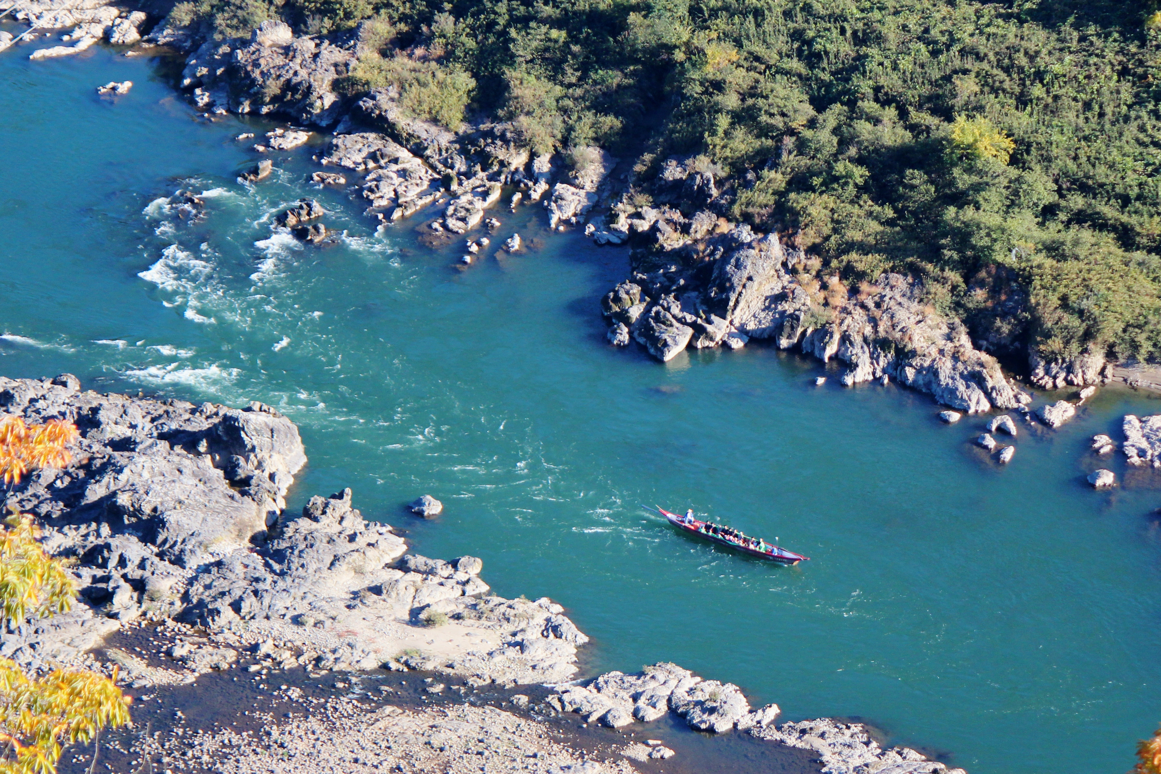 Pleasure boat of Japan Rhine